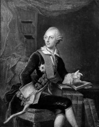 Portrait of Alexander, Margrave of Brandenburg-Ansbach (1736-1806)